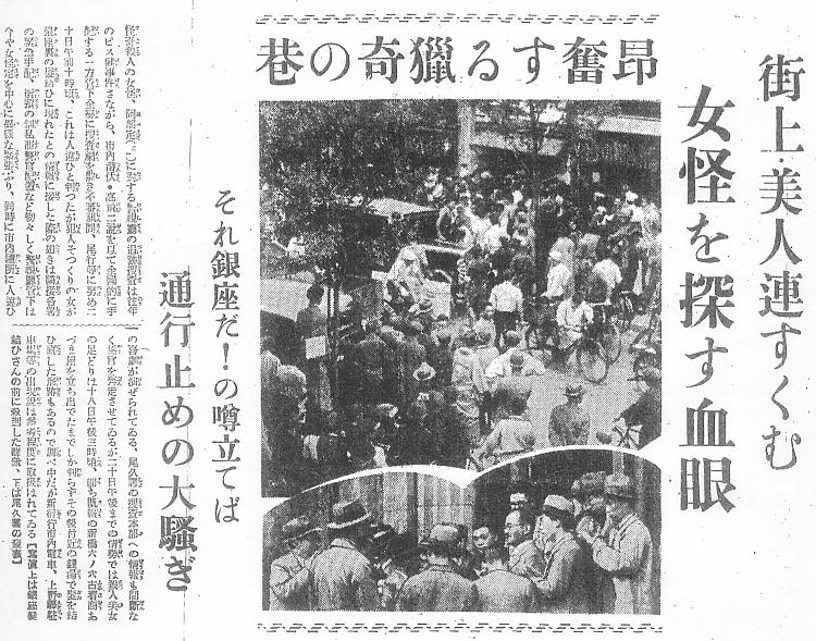 21 May 1936 issue of Tokyo Asahi Shimbun